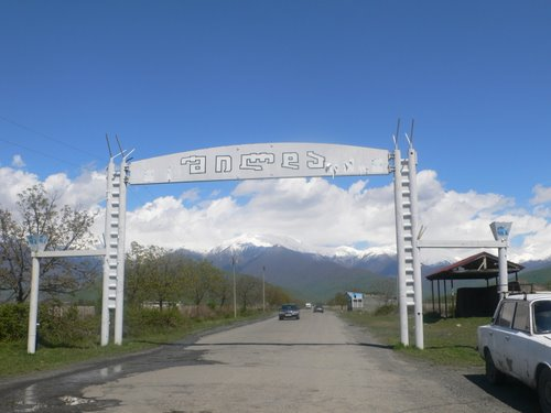 entree de shilda